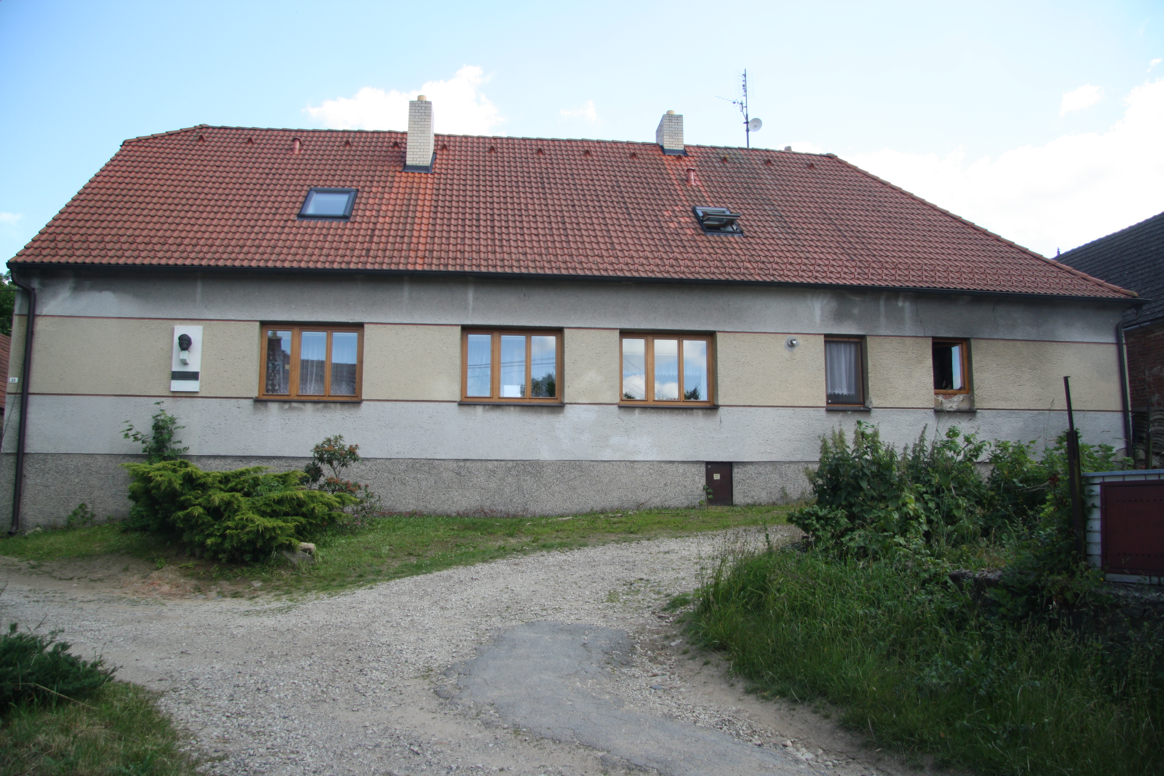 Native house of Jan Zahradníček in Mastník, Třebíč District.